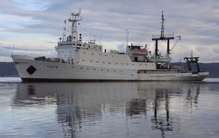 Senezh in Severomorsk.